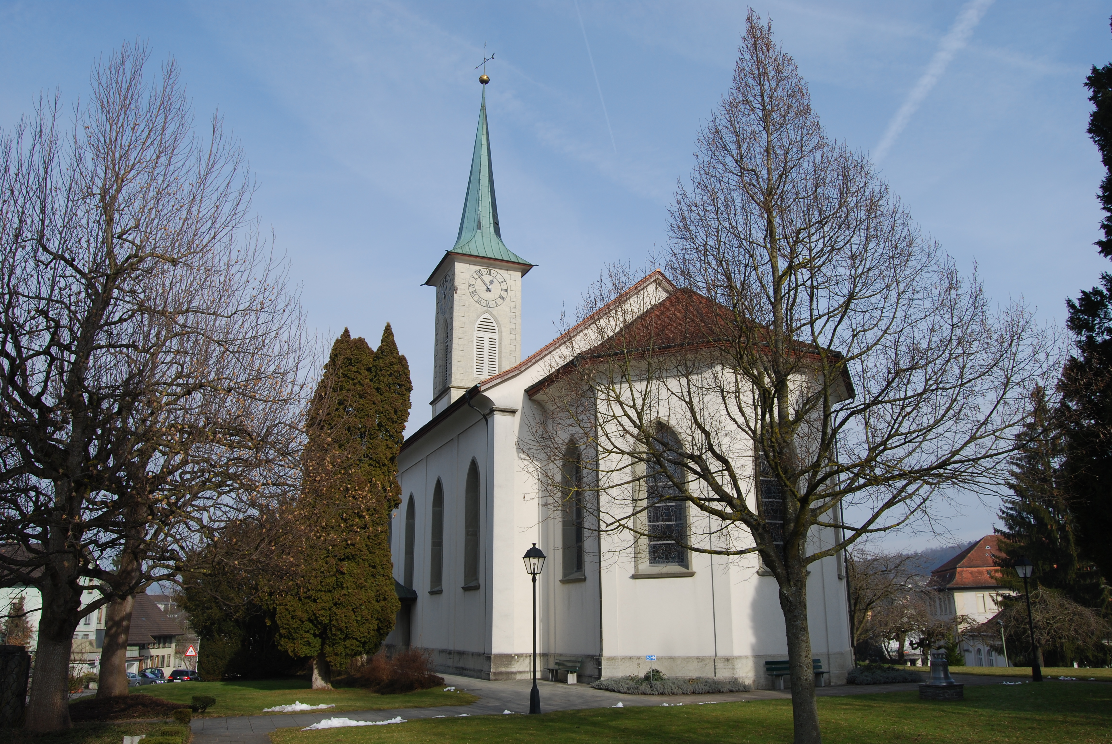 Protestant church of Menziken, canton of Aargau, SwitzerlandEsperanto: Reformita preĝejo de Menziken, Kantono Argovio, Svislando